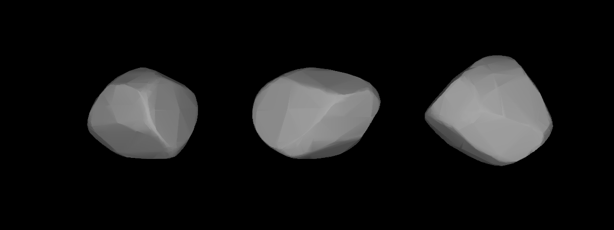 A three-dimensional model of 1317 Silvretta that was computed using light curve inversion techniques.